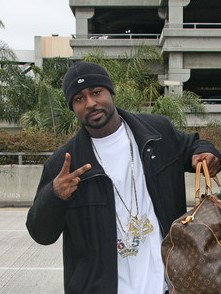 Young Buck Departs From LAX in 2010